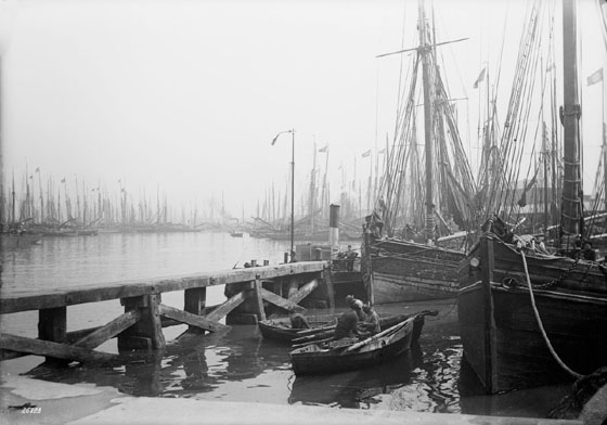 Reproduction ID: G2570 Maker: Francis Frith & Co Date: About 1890 Materials: silver halide: gelatine